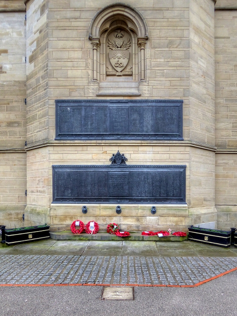 Manchester University War Memorials. The photograph shows the War Memorials on the side of the John Owens Building at western side of the University of Manchester quadrangle. The upper memorial is that of the Second World War, the lower memorial is of the First World War. Bronze panels carry names of the 511 staff, students and Officer Training Corps members associated with the University who fell in the two world wars.